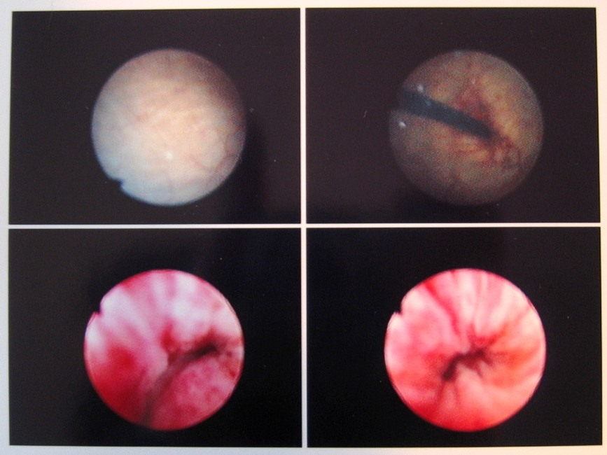 Images from a cystoscopy. The top two images show the interior of a bladder. The top left image shows the bladder wall, the top right shows the cystoscope passing into the bladder from the urethra. The bottom two images show an inflammed urethra. Cystoscopy carried out on Michael Reeve (29 year old male), at the North London Nuffield Hospital].